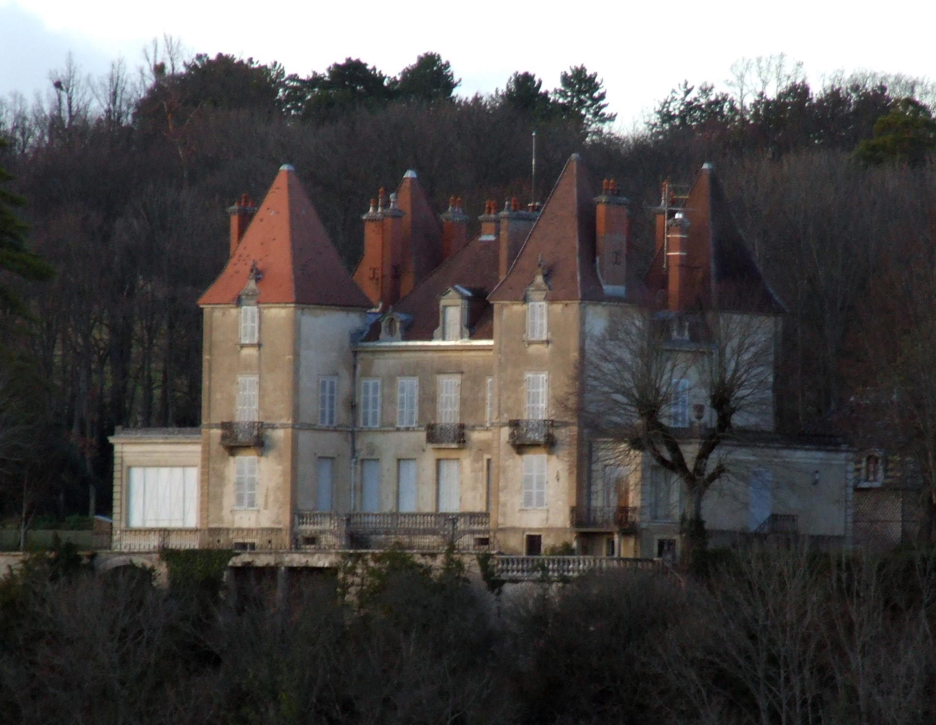 Gouville castel, Corcelles-les-Monts, Burgundy, FRANCE